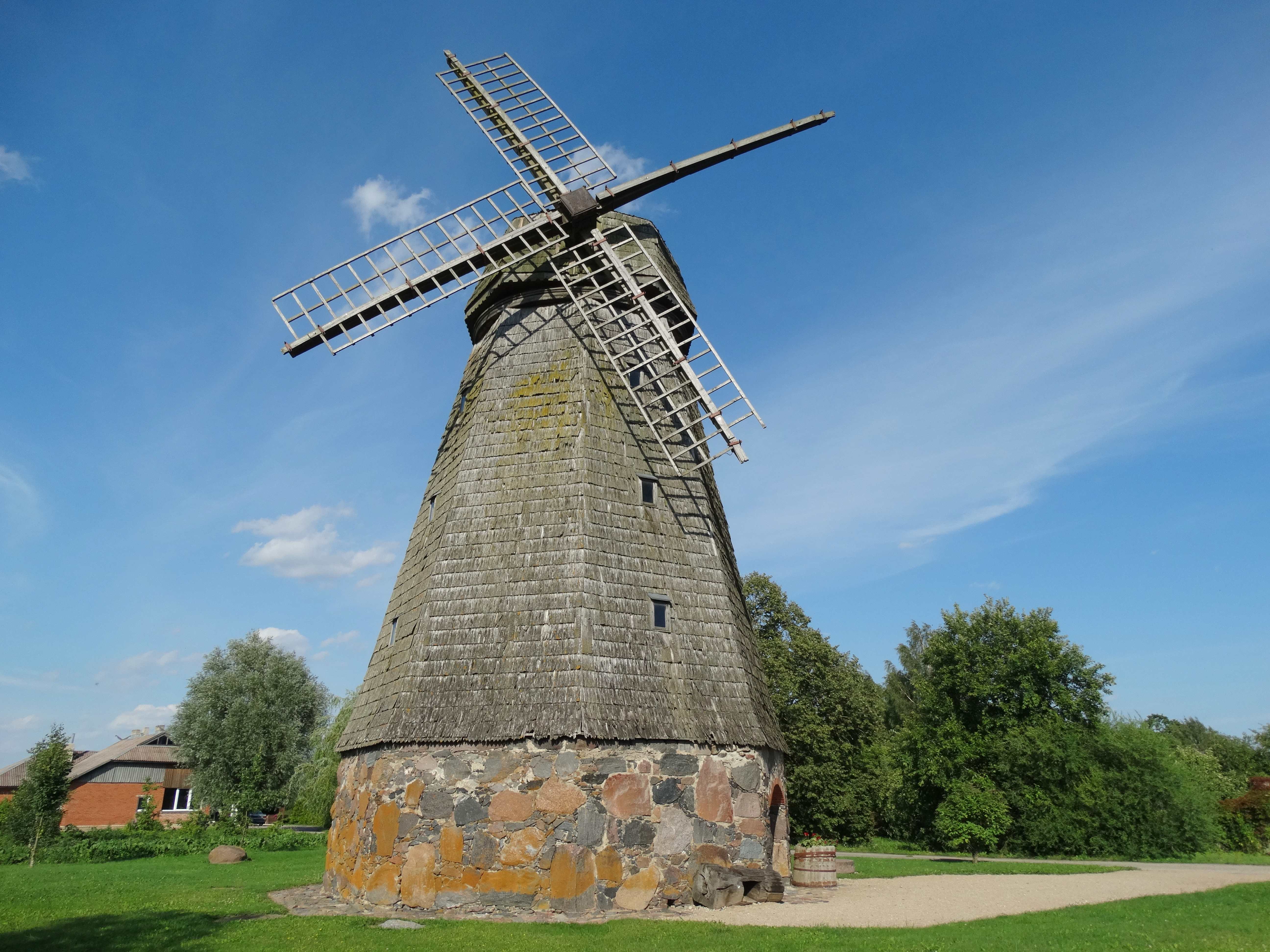 Windmill, Stačiūnai, Pakruojis District, Lithuania